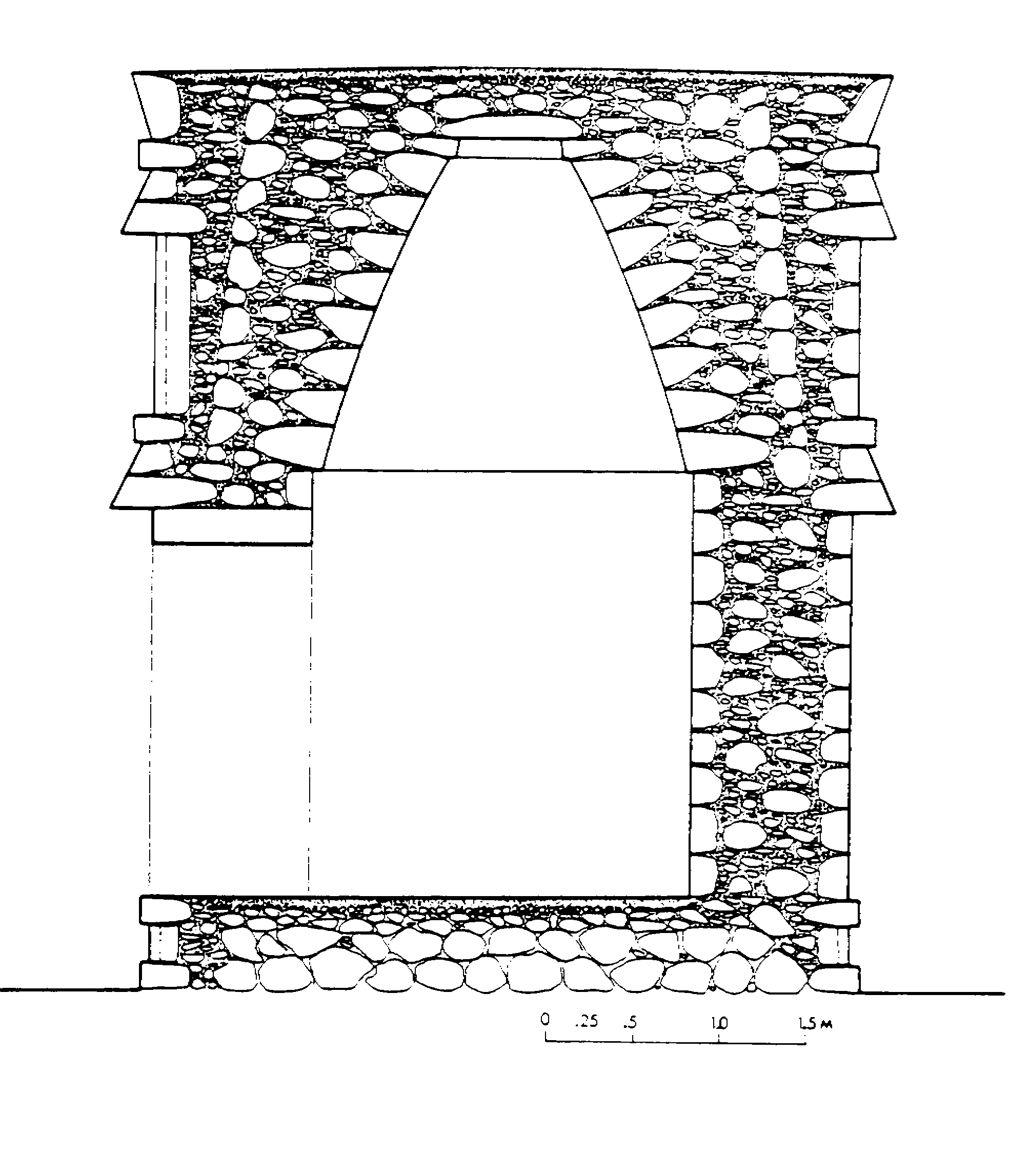 Puuc architecture: section of a Puuc building.